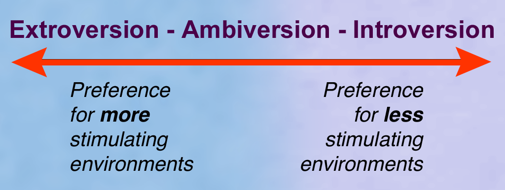 Diagram made by uploader to illustrate the Extrovert-Introvert spectrum (or Introvert-Extrovert spectrum), according to uploader's reading of the definition of introversion and extroversion by Susan Cain in her book Quiet: The Power of Introverts in a World That Can't Stop Talking. Diagram was not taken from the book.